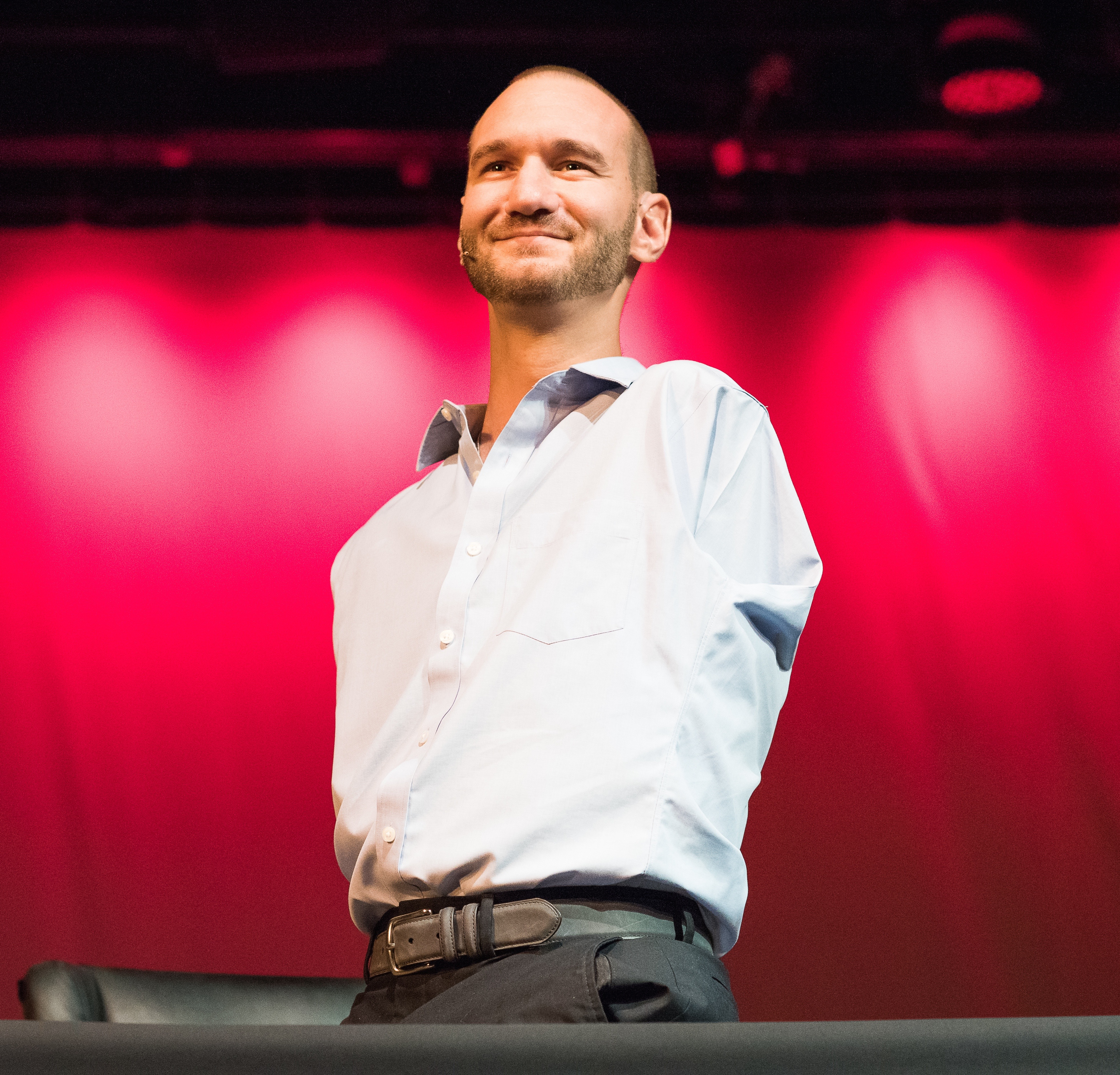 Vujicic speaking in 2016